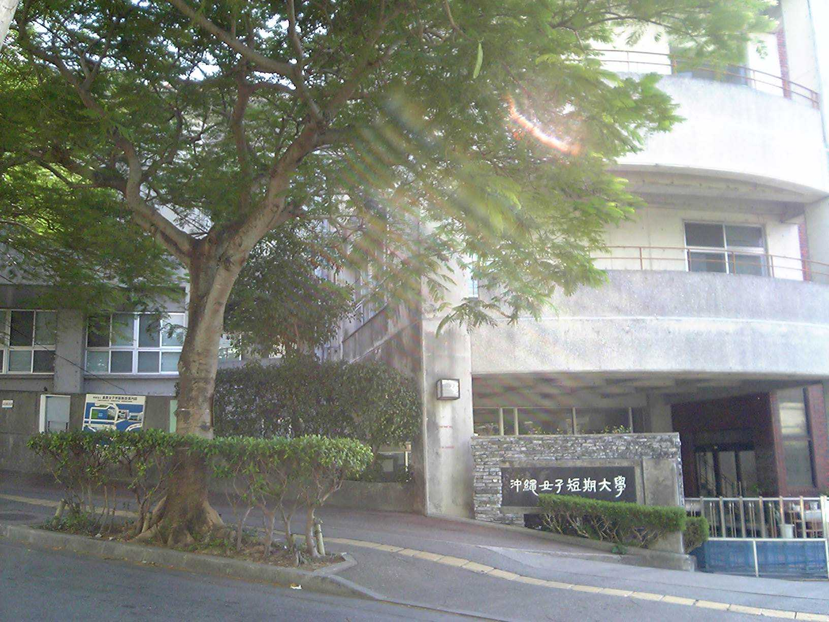 The former campus building of the Okinawa Women's Junior College